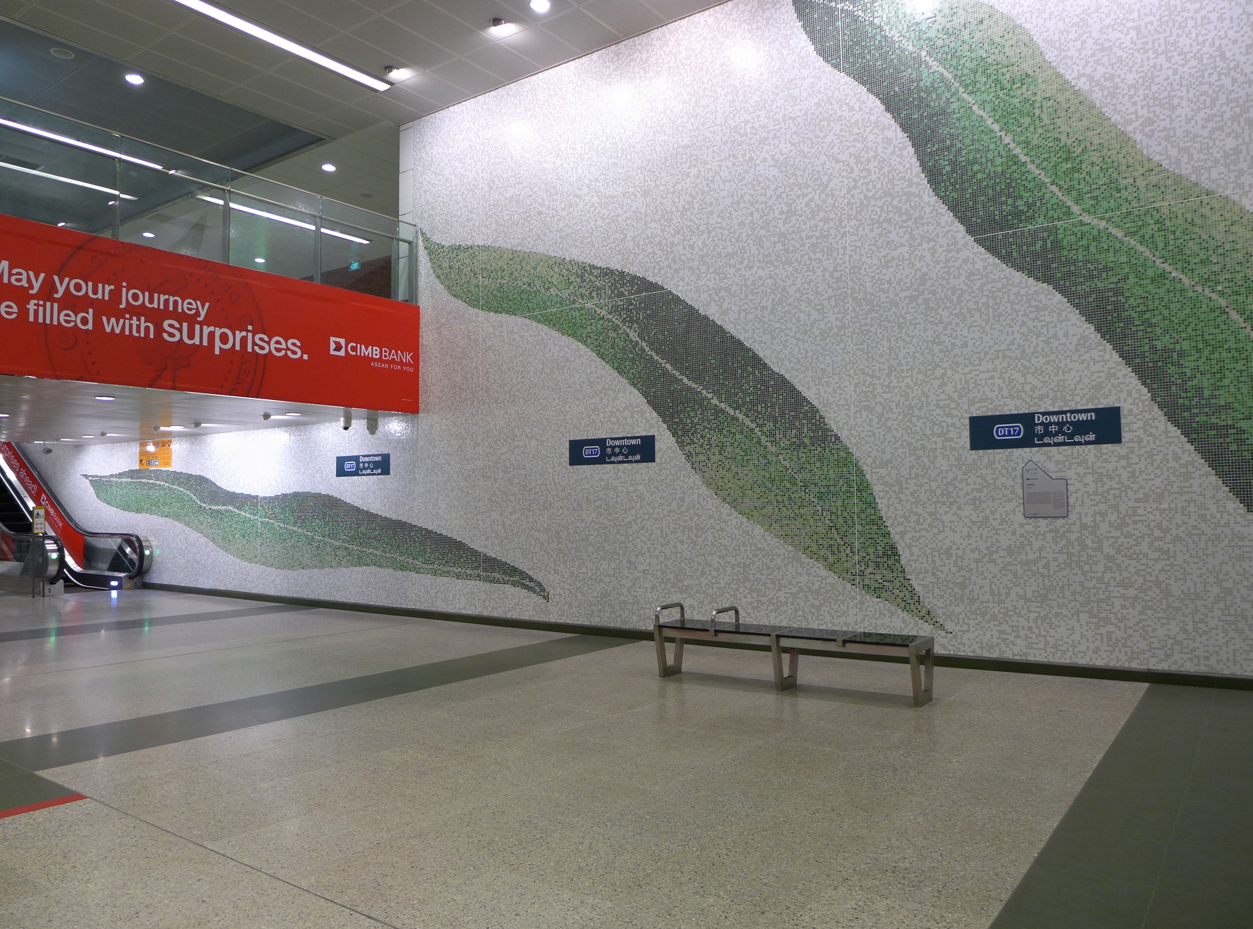 The platform of Downtown MRT Station, Singapore.